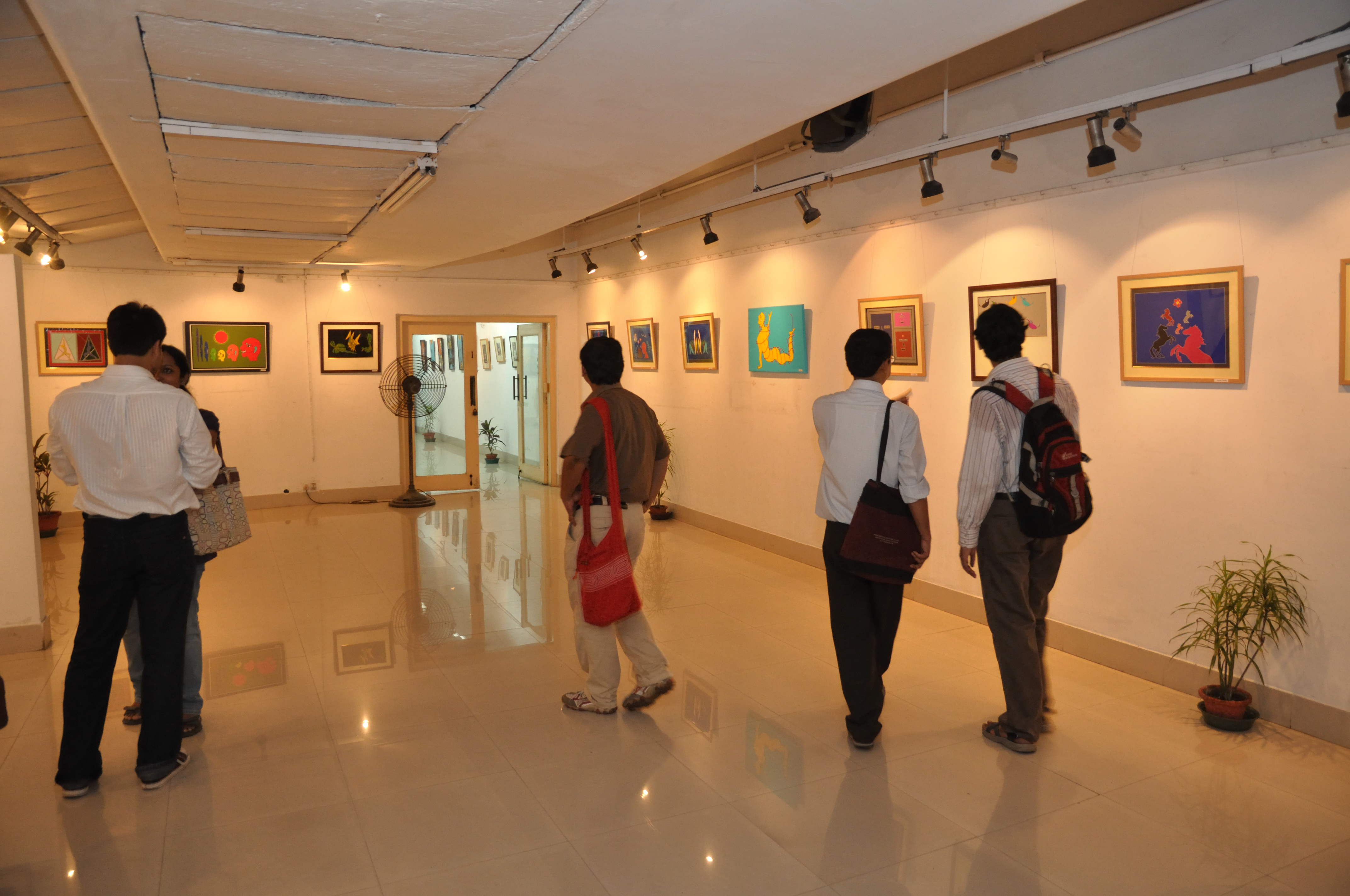 The second solo exhibition of paintings with computer graphics ‘Graphic Art’ using ‘C’ and ‘C++’ by Prof. Biswatosh Sengupta, was held from 22 July to 28 July, 2010 at the Academy of Fine Arts, Kolkata.